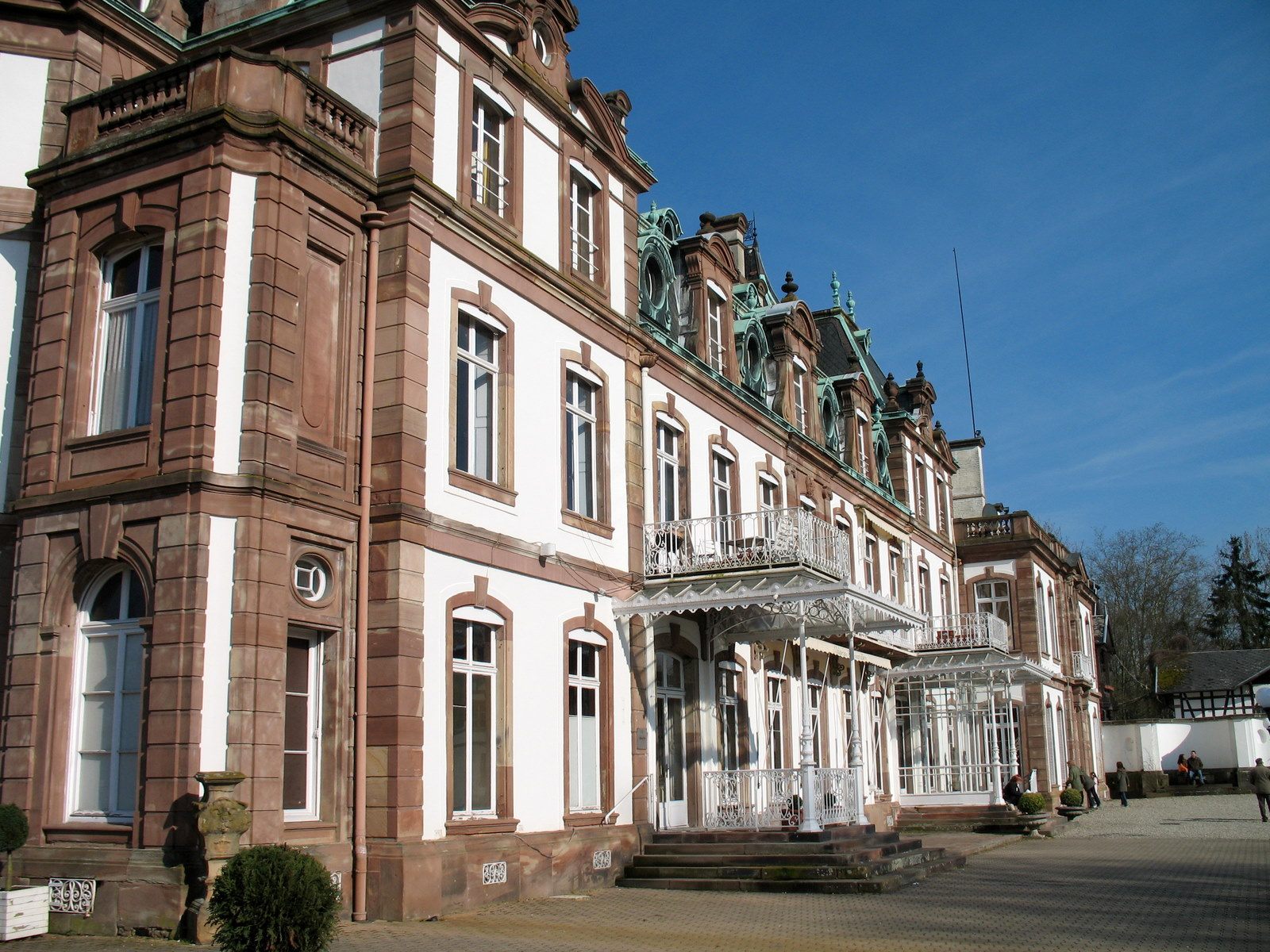 See where this picture was taken. ?